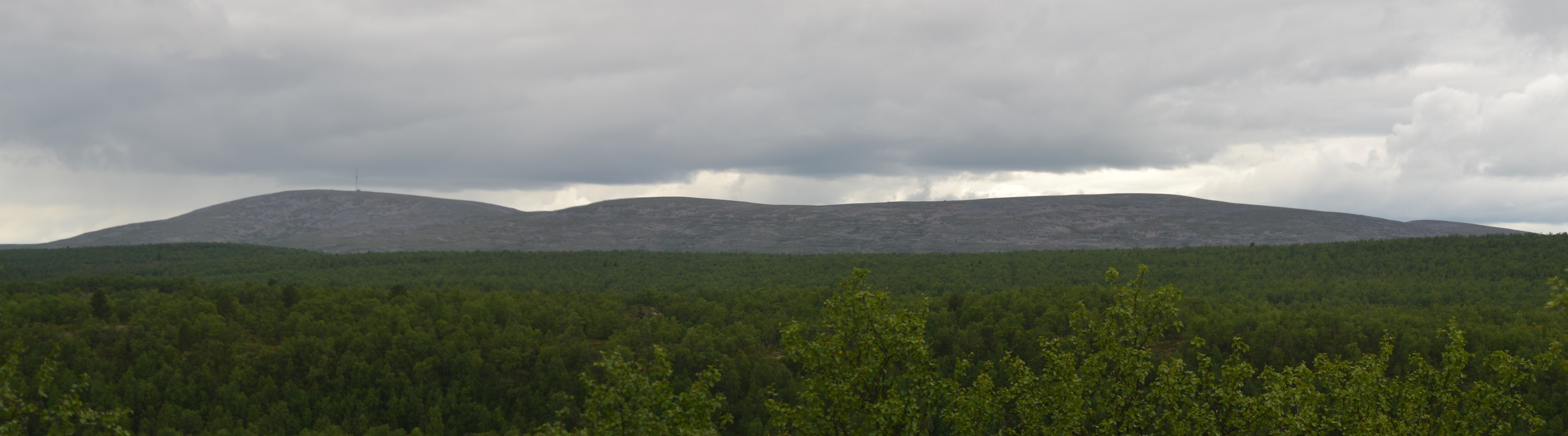 Ailigas fell in Karigasniemi, Utsjoki, Finland